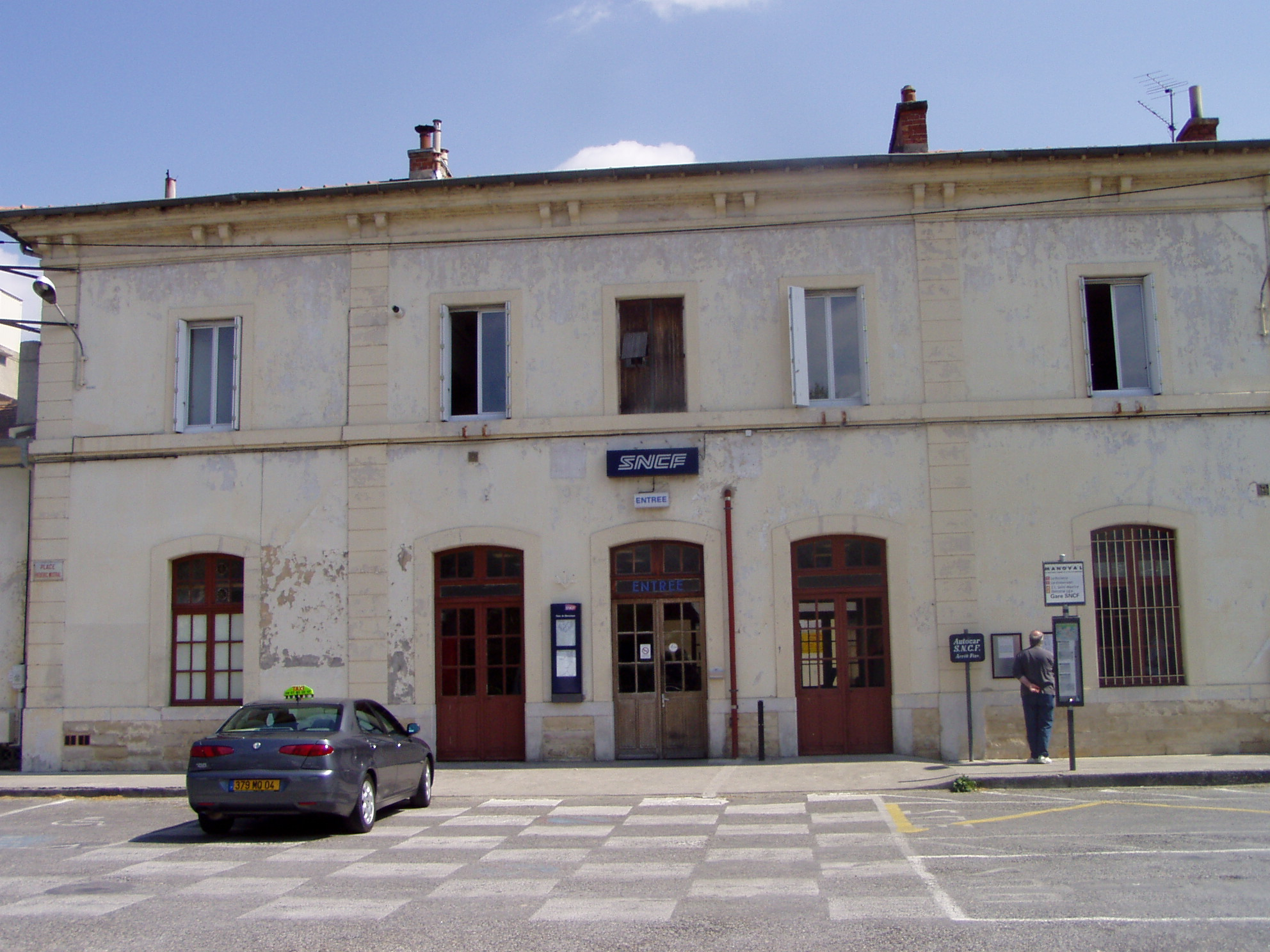 Train station of Manosque - Gréoux-les-Bains